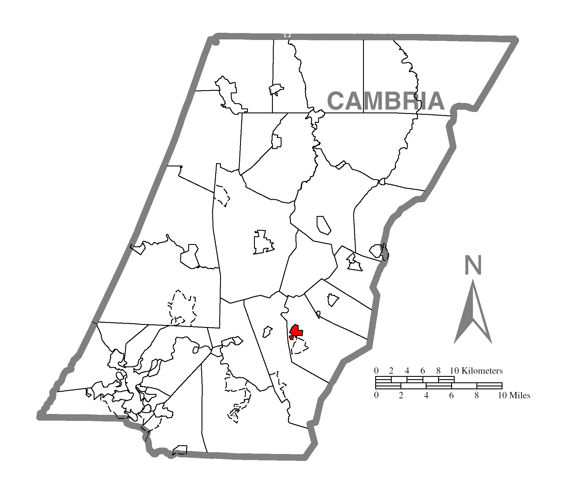 A map of Cambria County showing Portage, Pennsylvania (alternate) highlighted on the map.